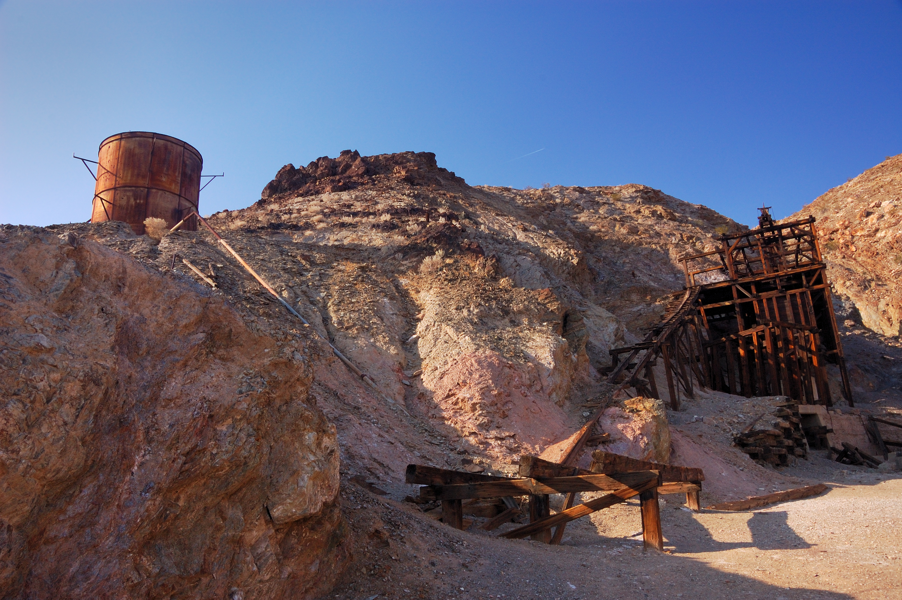 Ruins of the lower tram terminal and mill of the Keane Wonder Mine.